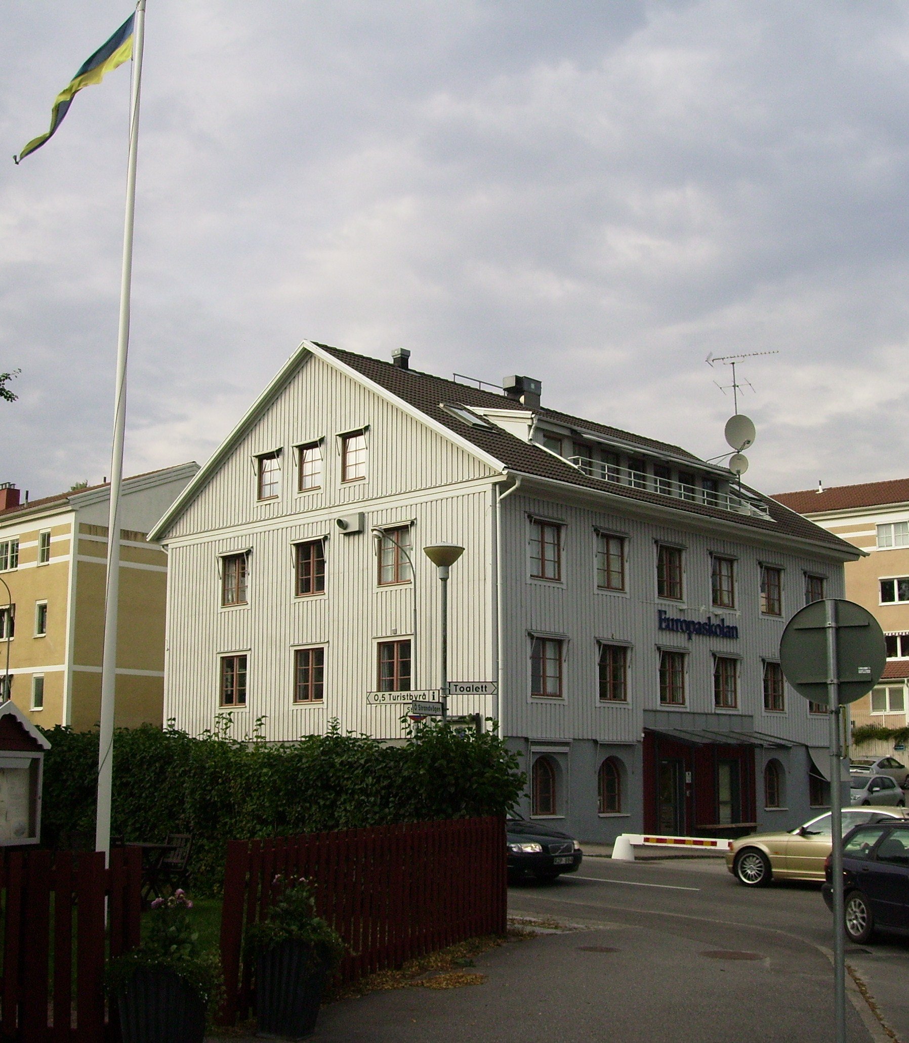 Picture of Europaskolan in Strängnäs, Södermanland